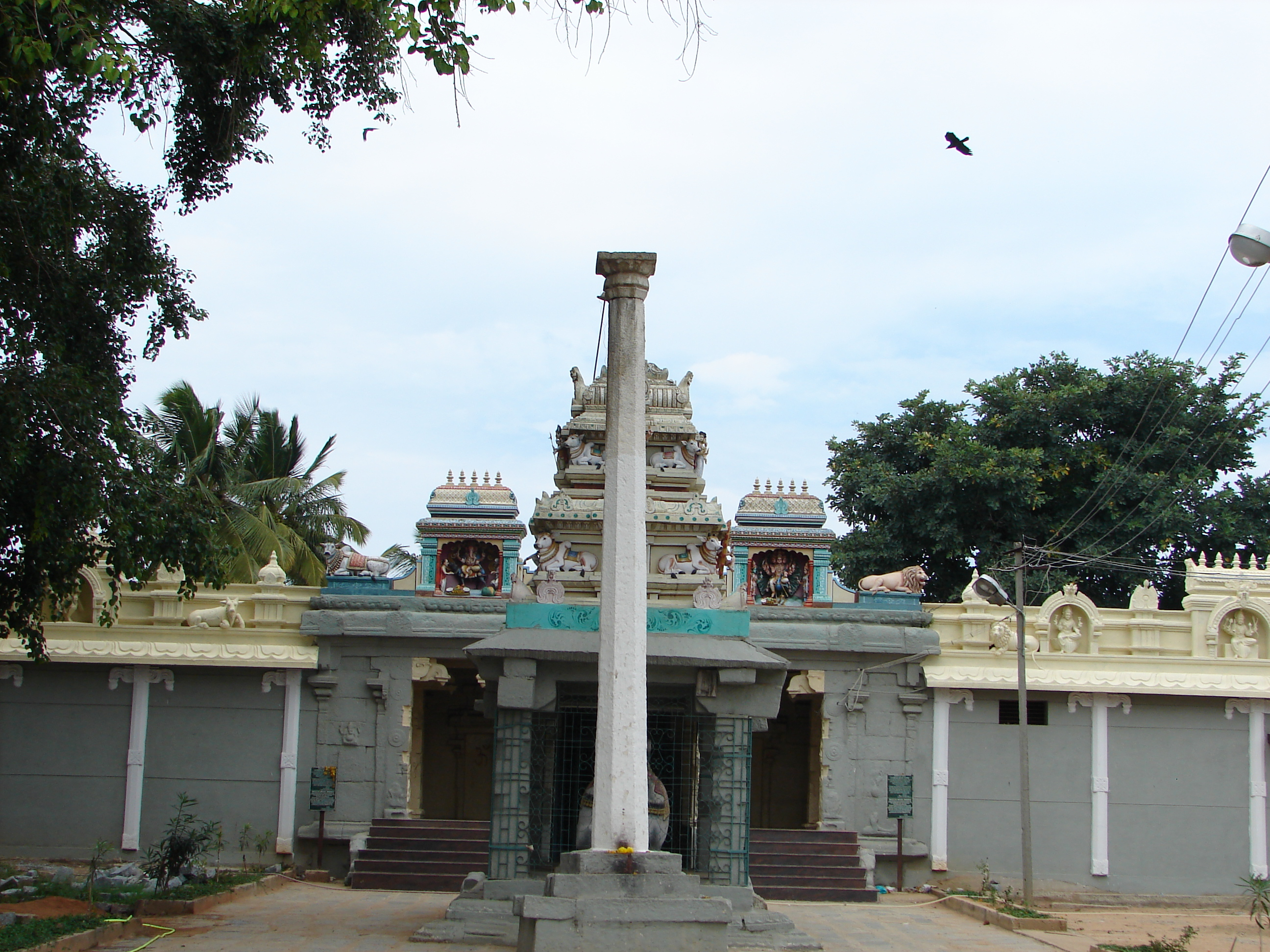 This photograph was taken by me at the Someshvara temple (also spelt Someshwara) in Mulbagal, Kolar district, Karnataka state, India.